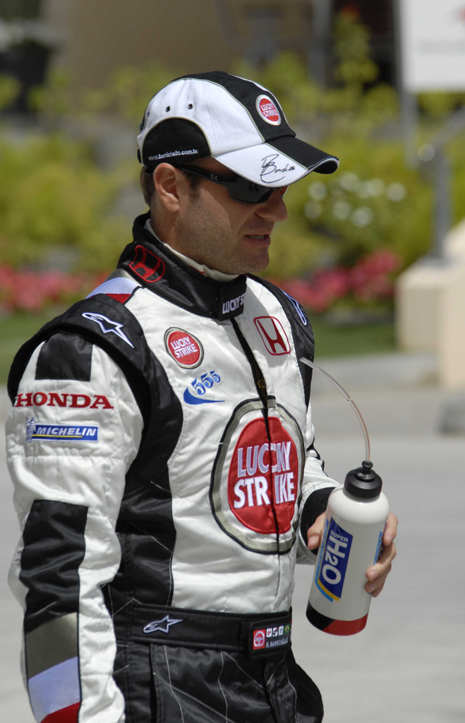 Rubens Barrichello at the 2006 Bahrain Grand Prix.